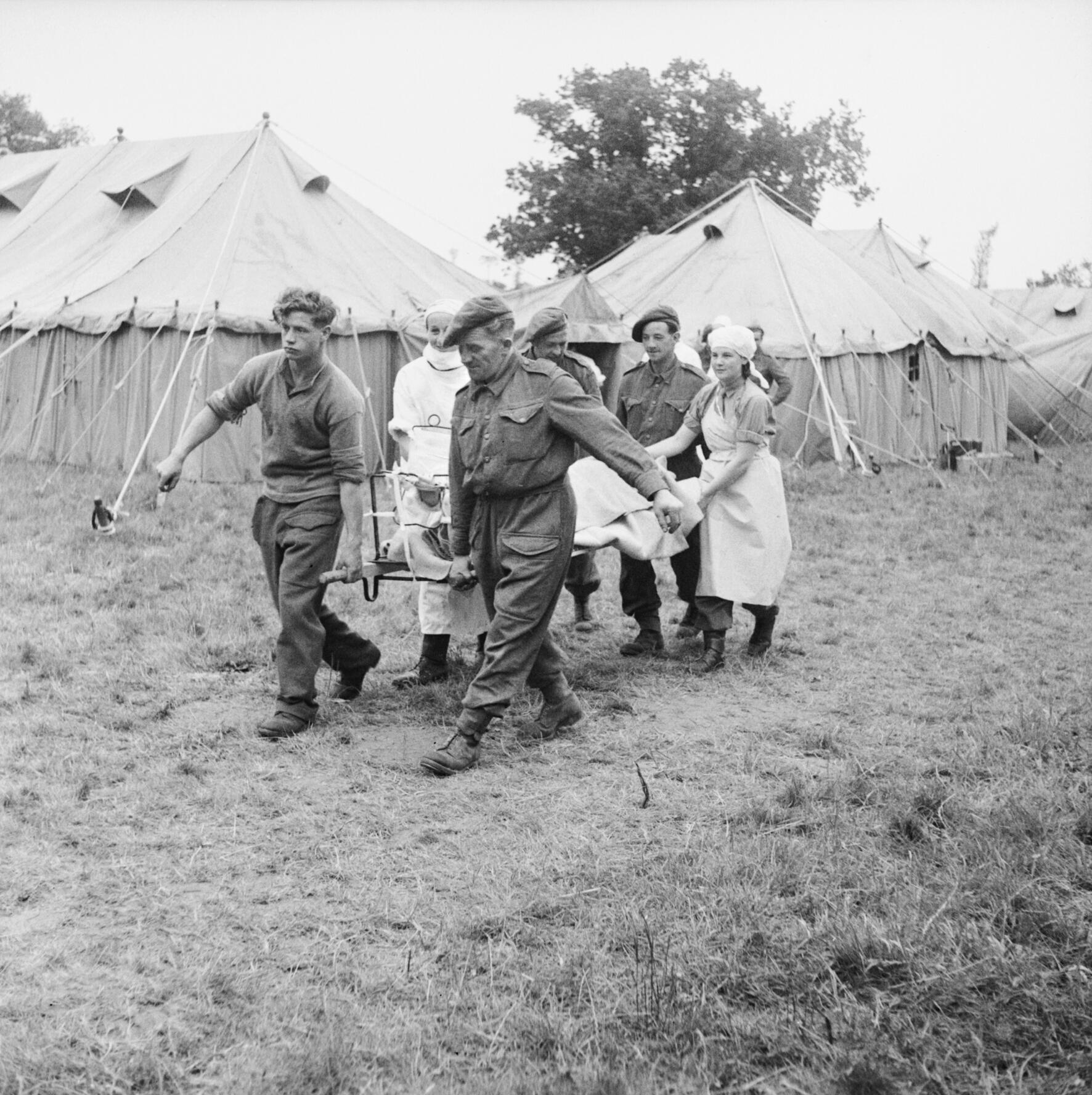 The British Army in the Normandy Campaign 1944 Royal Army Medical Corps nurses and women of the Queen Alexandra's Imperial Military Nursing Service (QAIMNS) carry a wounded soldier out of the operating tent at the 79th General Hospital at Bayeux, 20 June 1944.